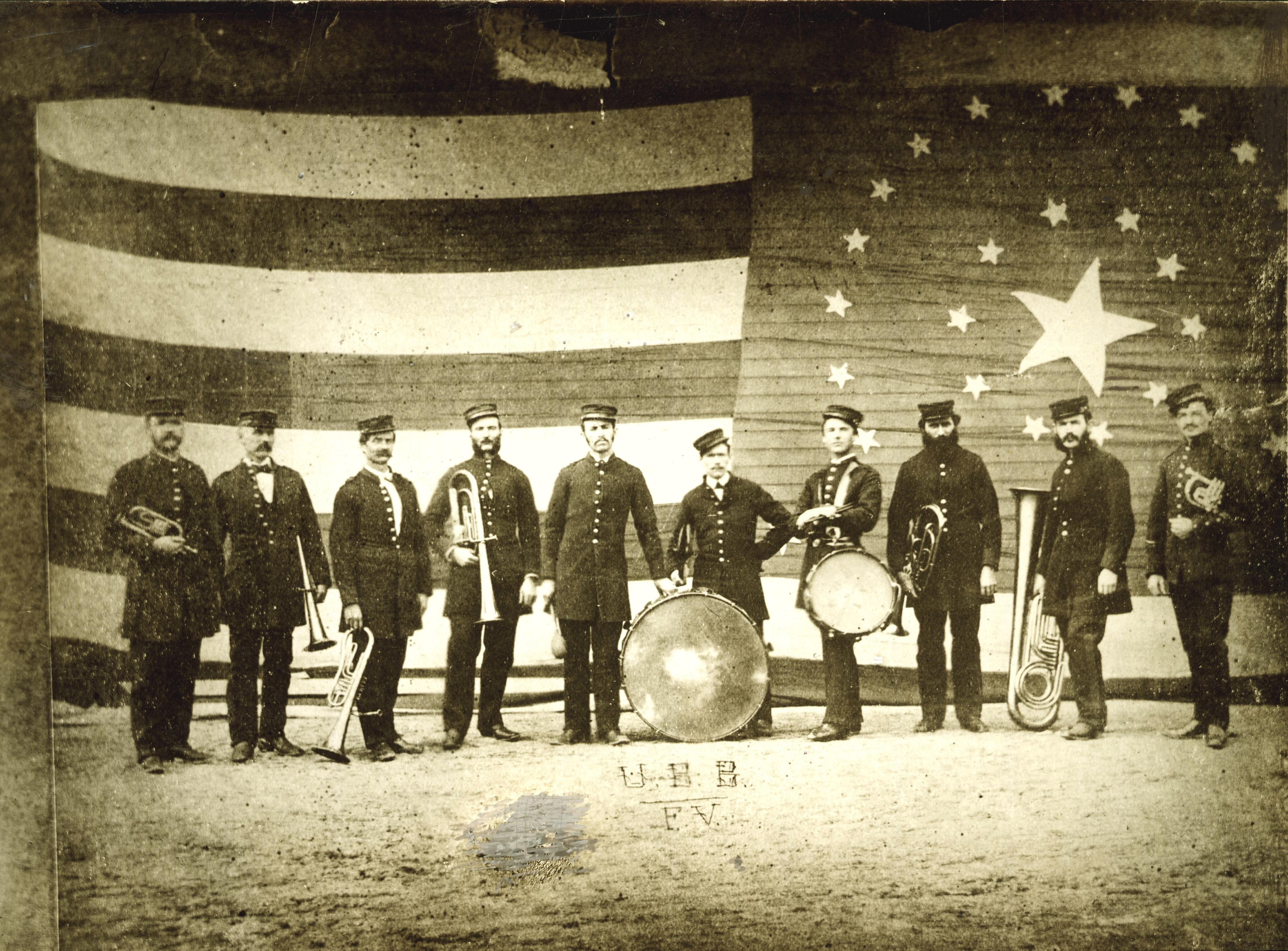 Photograph of the Union Brass Band of Ferry Village, the first civilian band in Cape Elizabeth, Cumberland County, Maine. The band was photographed in front of C. A. Tilton's store in Cape Elizabeth in April 1873. Tilton's store was draped with a large American flag for the photograph. Retouched by MarmadukePercy